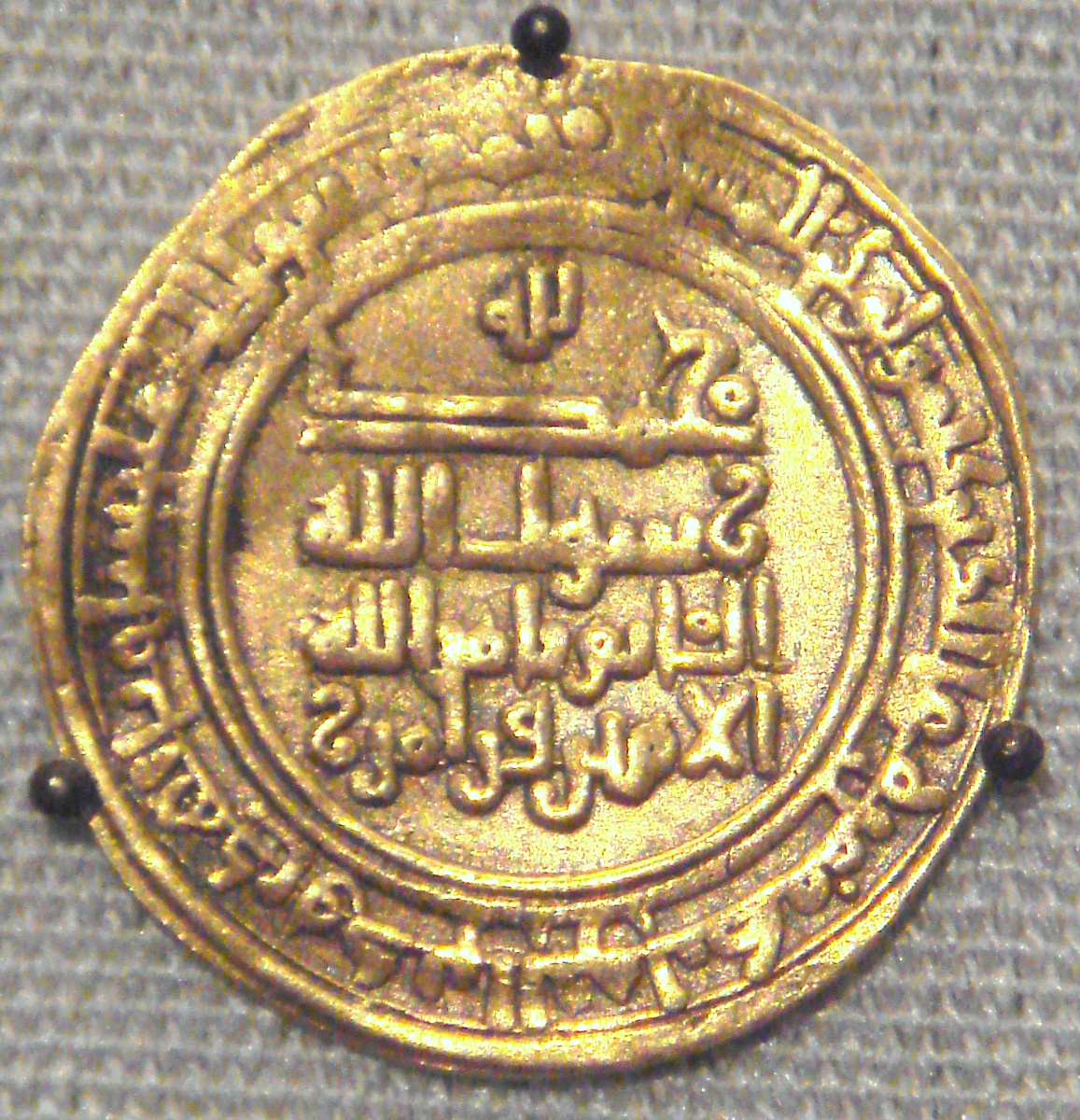 Kakwayhids_coin_Isfahan_Iran_1042